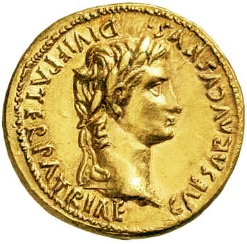 Augustus AV Aureus. Rome mint, 13-14 AD. Obv: CAESAR AVGVSTVS DIVI F PATER PATRIAE, laureate head right Rev: AVG F TR POT XV, TI CAESAR. RIC 221, BMC 511, BN 1685, C 299